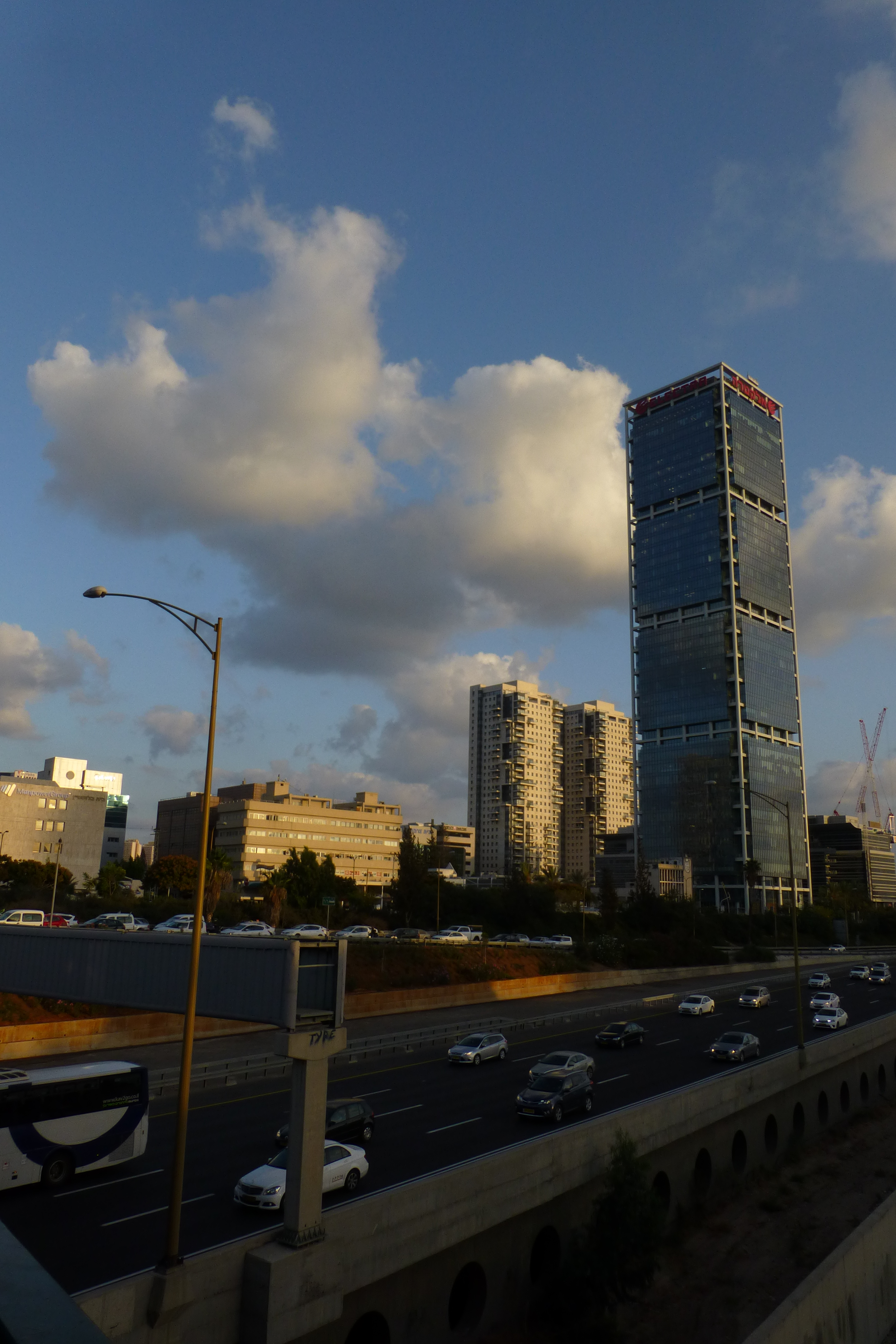 Electra Tower